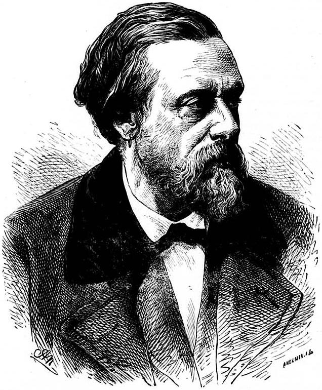 Ludwig Bohnstedt. Engraving.